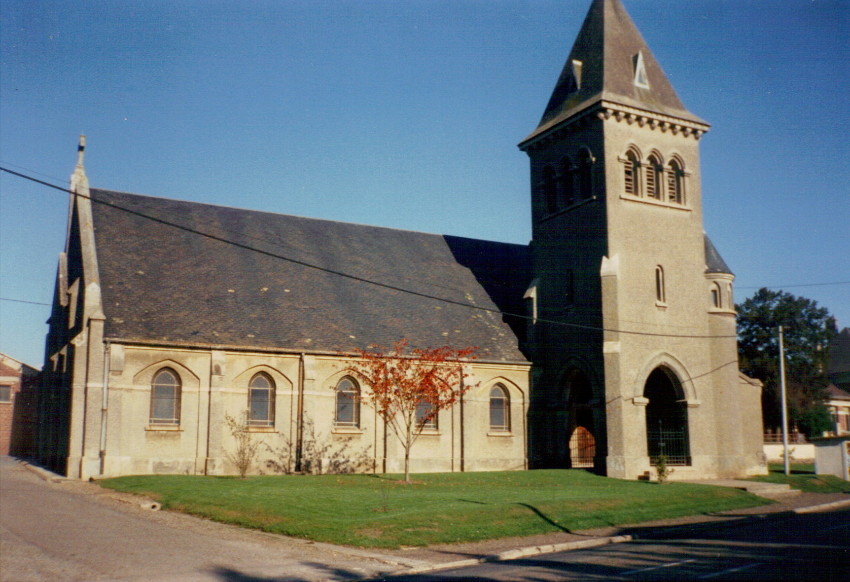 L'église de Frières-Faillouël en 1995